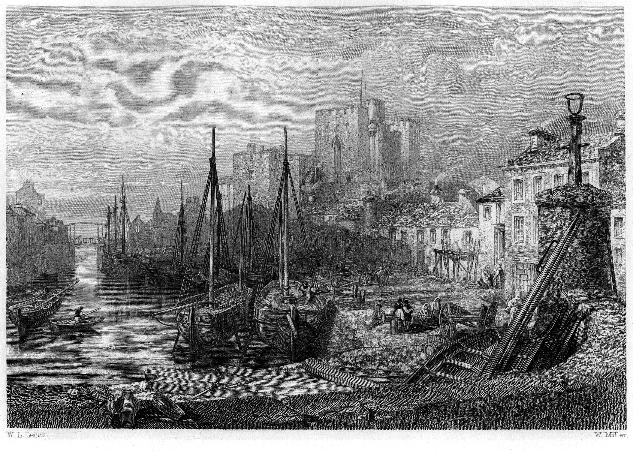 Castle Rushen, Castletown, Isle of Man engraving by William Miller after W L Leitch, published in Waverley Novels vol vii (Abbotsford Edition). Walter Scott. Edinburgh and London: Robert Cadell, Houlston & Stoneman 1842 - 1847